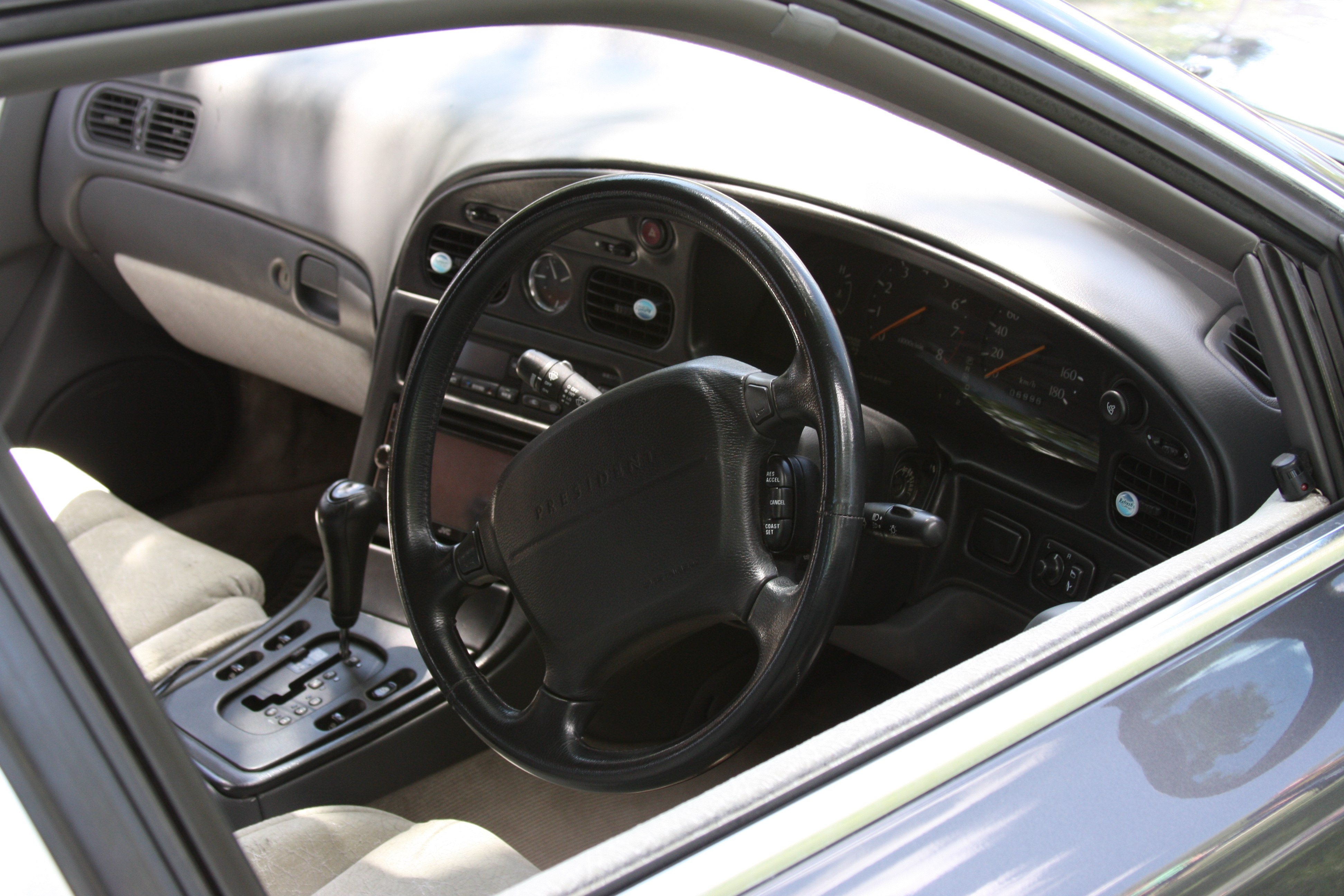 An import from Japan I hadn't seen before - a 1992 Nissan President. We got the Infiniti Q45 in North American which was a shorter wheelbase version of this with re-worked front and rear styling.